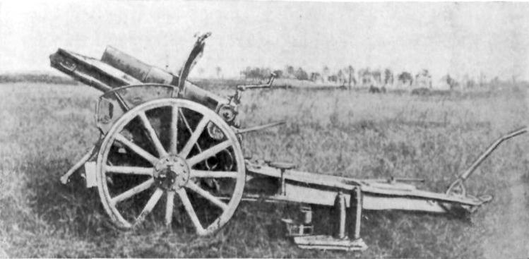 Photograph of German 10.5-cm. light field howitzer (l. F. H. 98/09), with ammunition.